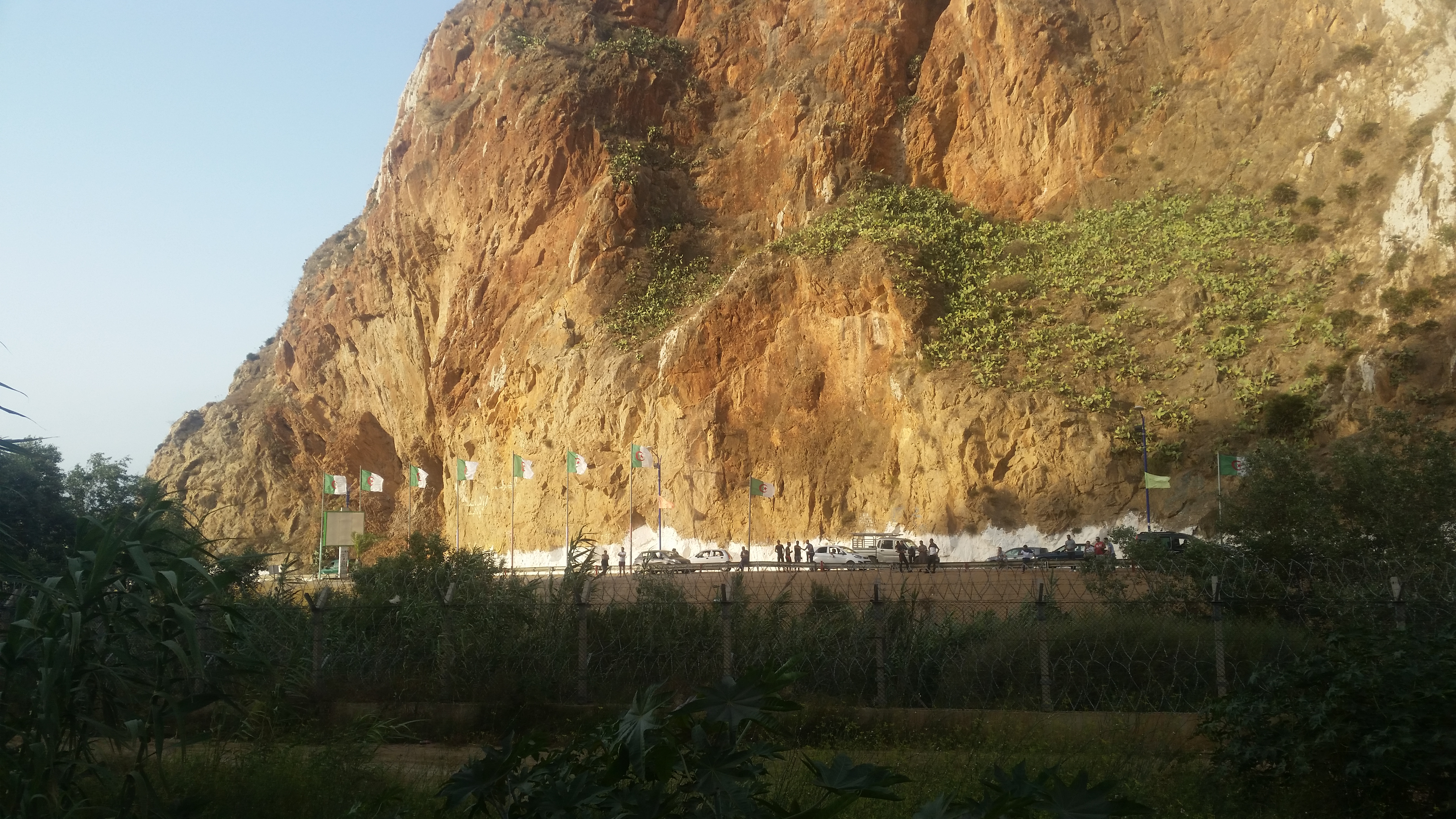 Everytime i come to this place i cry , because i remember that I can't cross this borders and see my family 😔